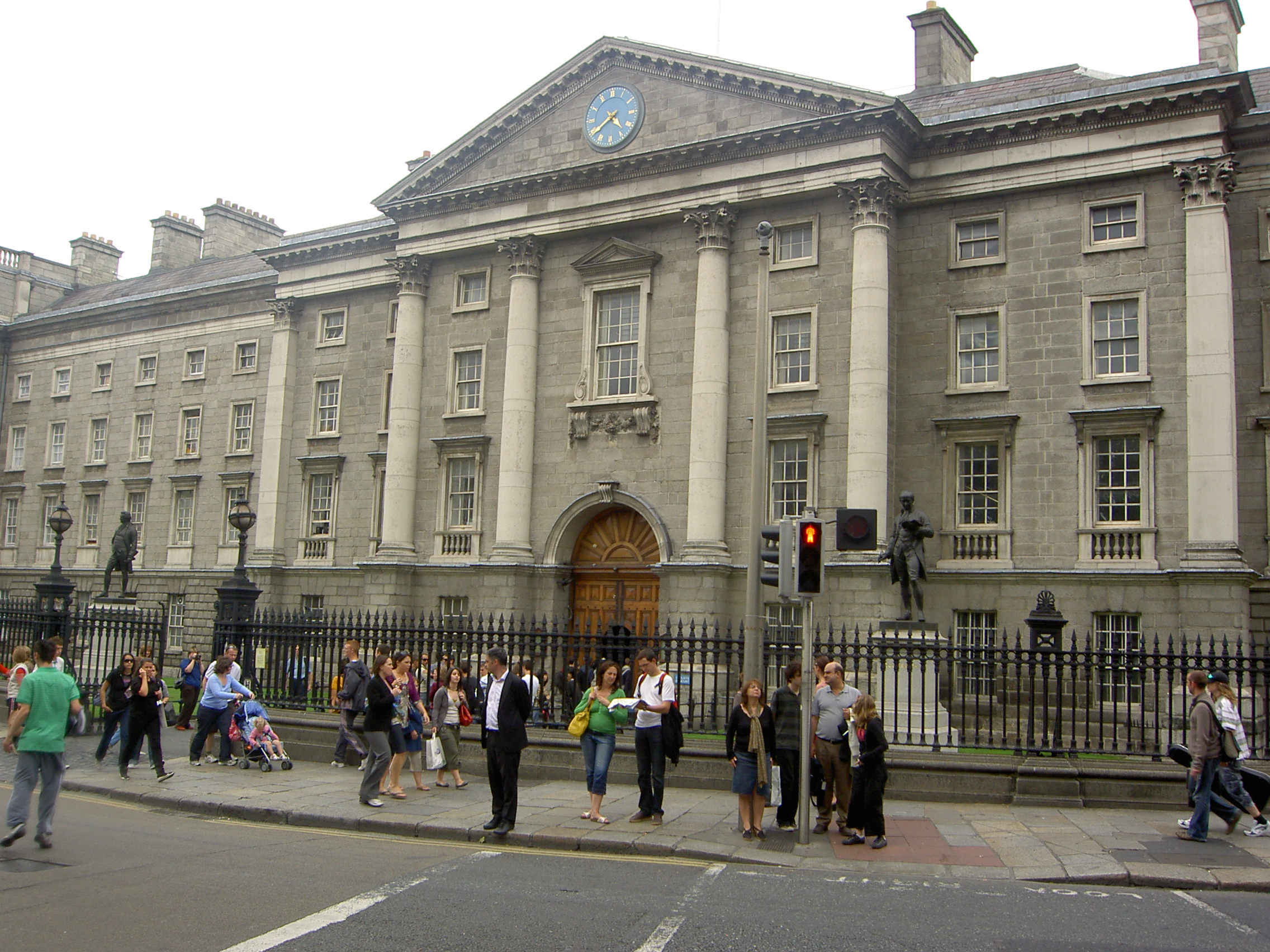 The Trinity College in Dublin, Ireland